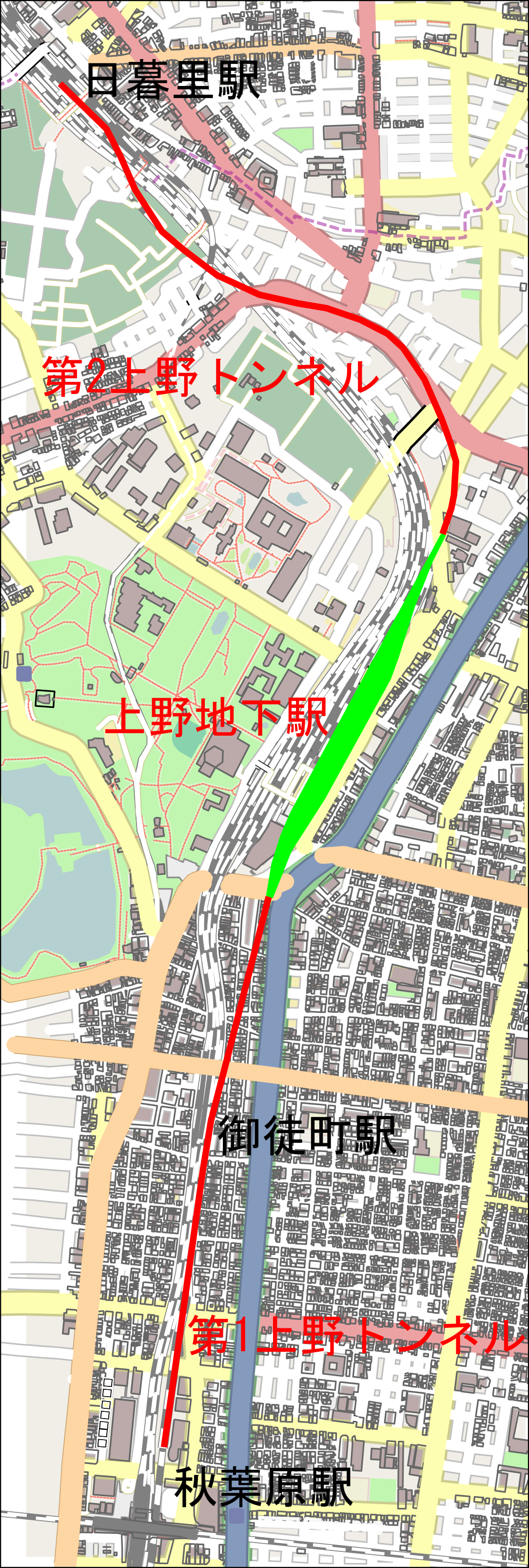 Map of Daiichi-Ueno and Daini-Ueno tunnel for Tohoku Shinkansen This map may be incomplete, and may contain errors. Don't rely solely on it for navigation.